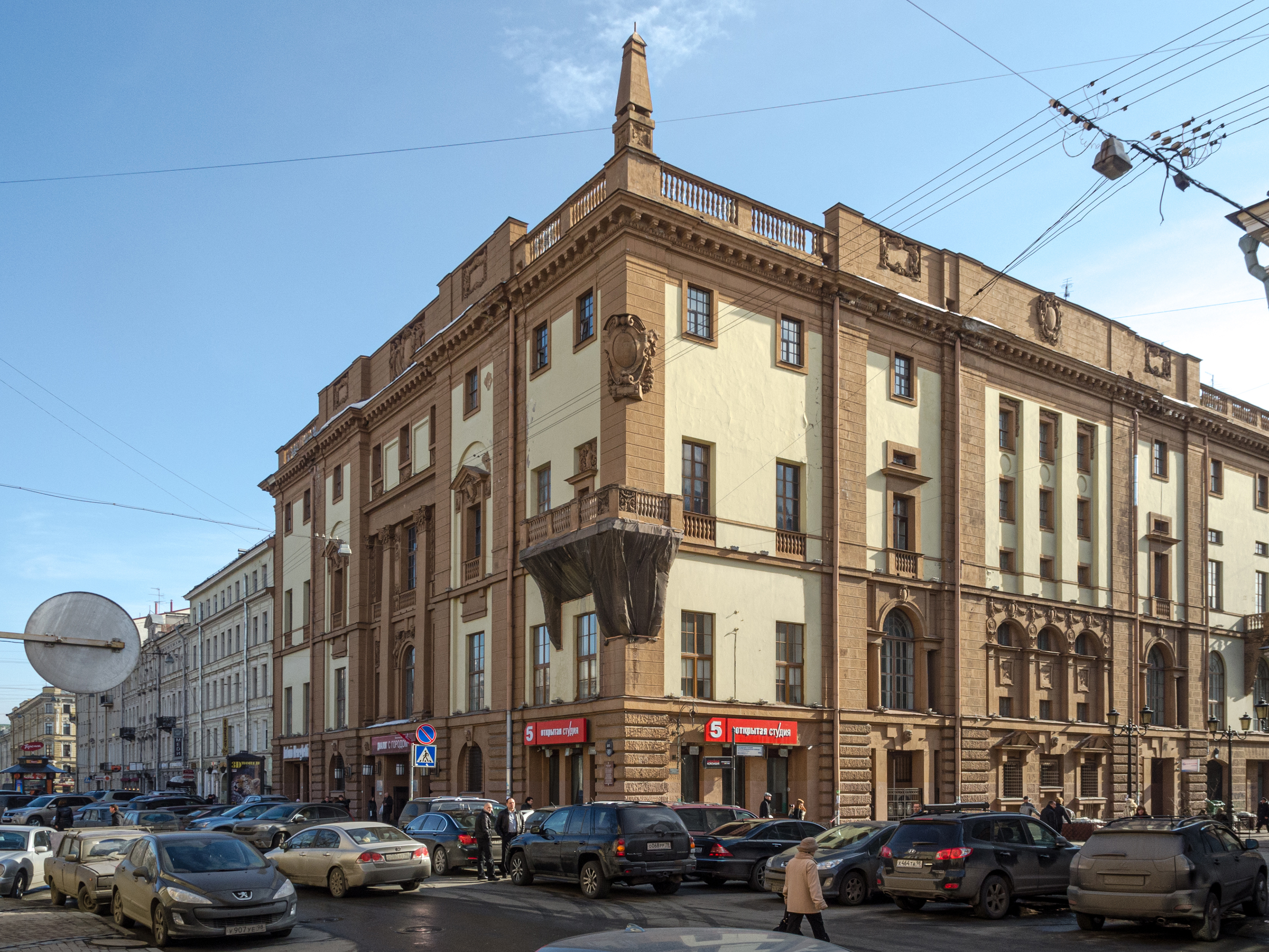 "Leningradskiy Dom Radio", Saint Petesburg, 2011